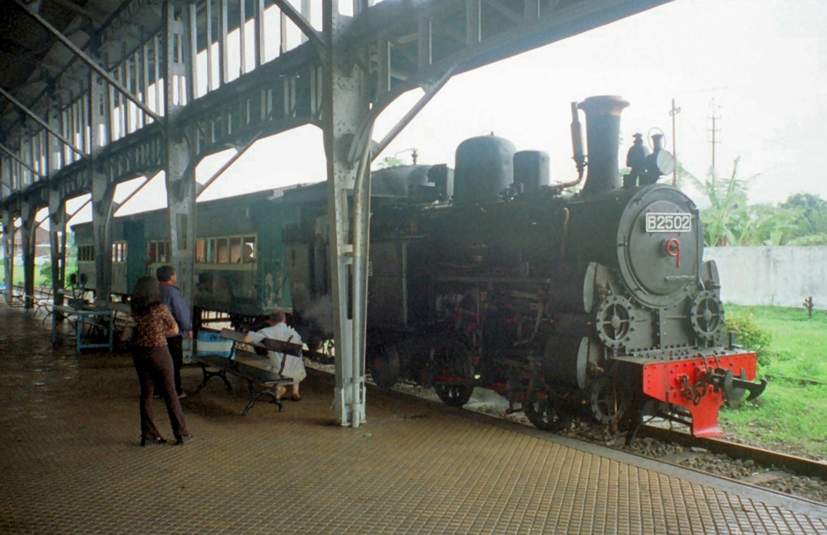 B2502 Steam Locomotive Ambarawa Railway Museum Ambawara Central Java Indonesia Picture taken oktober 2000 by user Hullie